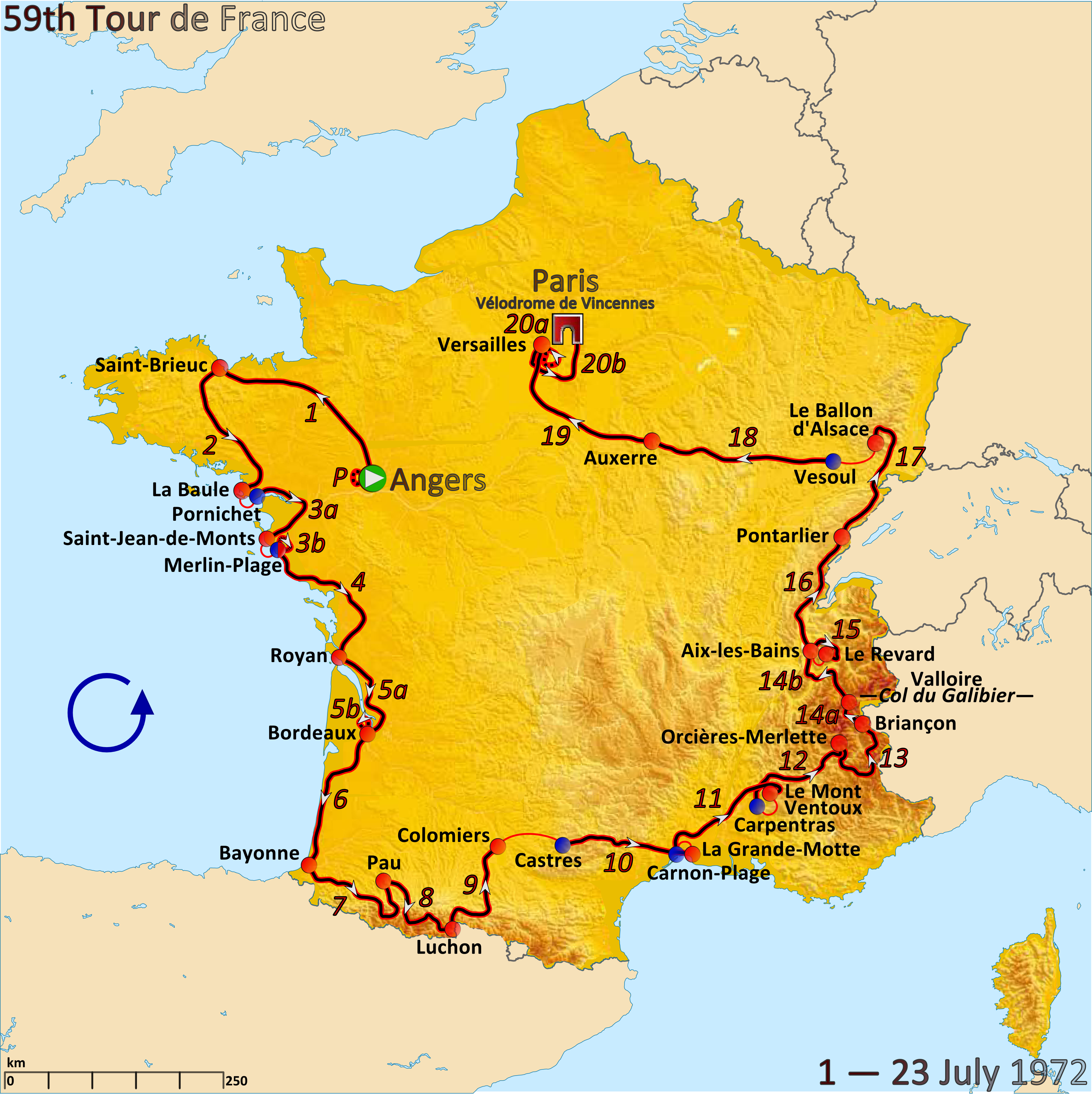 Map of the 1972 Tour de France created in Inkscape